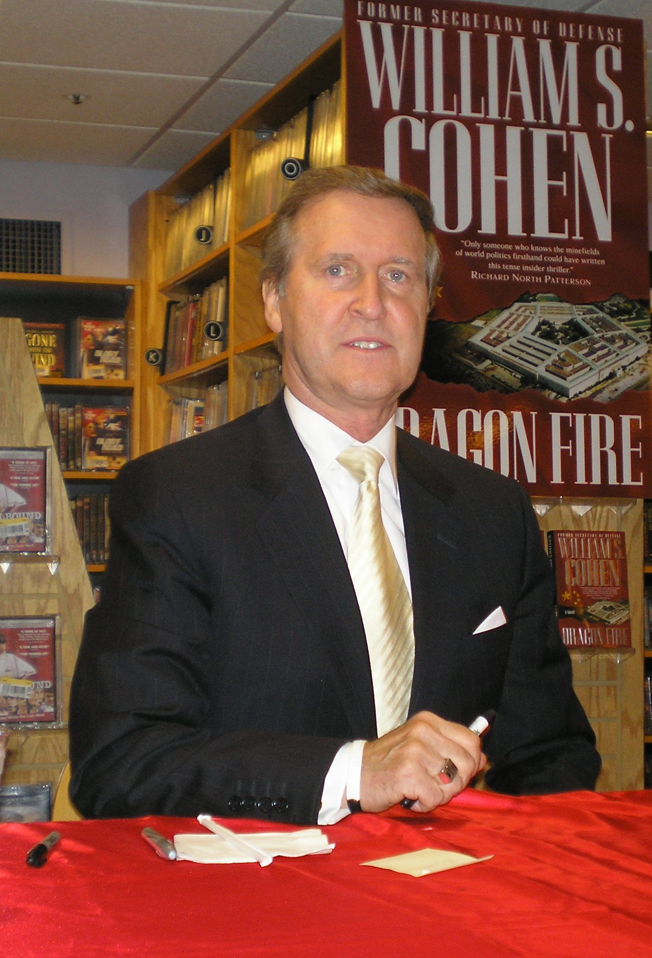 William Cohen signing his new novel at Borders Bookstore in New York City.